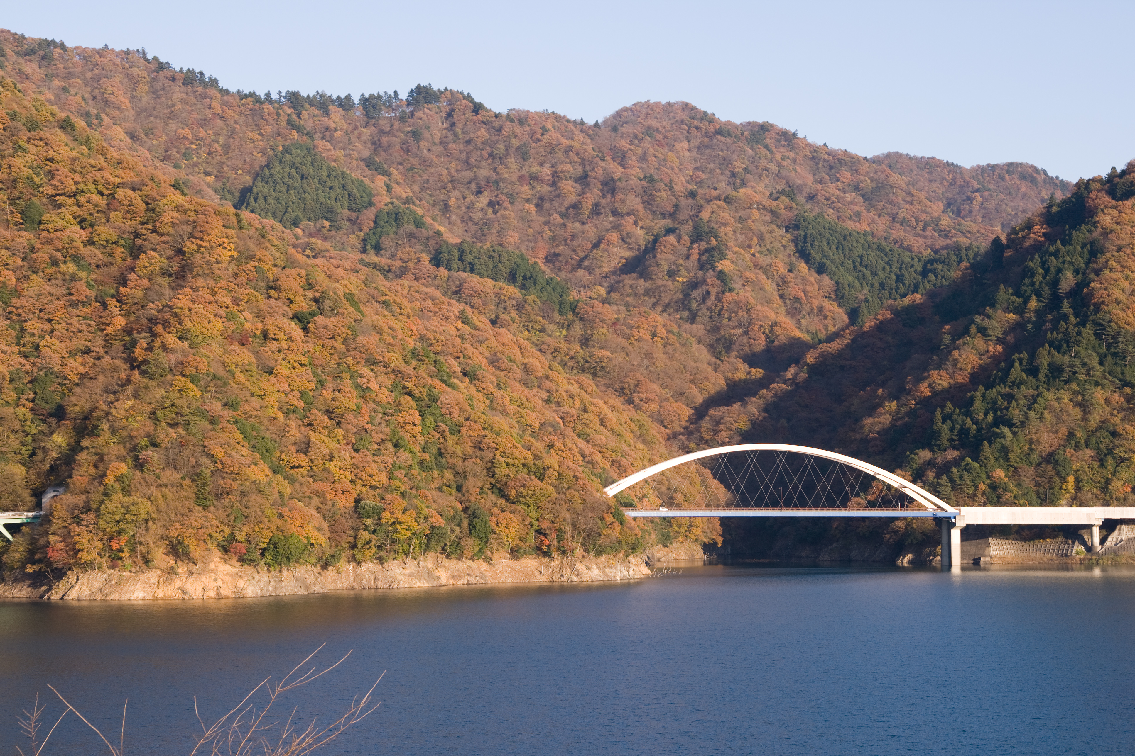 Lake Miyagase (宮ヶ瀬湖 Miyagase-ko) and Mt.Bukka (仏果山 Bukka-san), Kiyokawa village, Kanagawa pref, Japan. The bridge of the lower right is Ōtanasawa Bridge (大棚沢橋 Ōtanasawa-bashi).